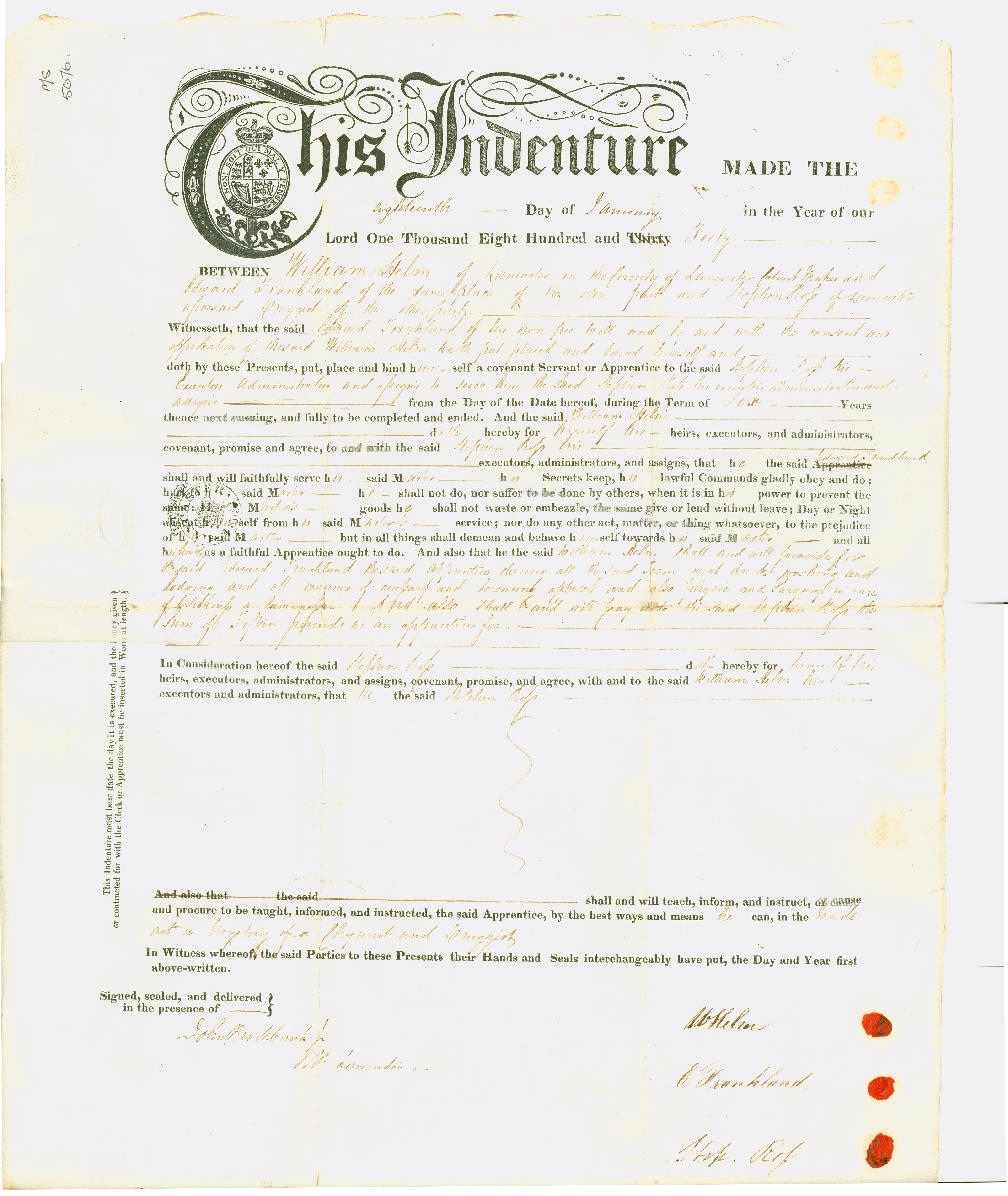 The Indenture document (An indenture was a legal document listing the obligations of the master tradesman and his apprentice) of Edward Frankland who was indentured by his stepfather, William Helm of Lancaster, to local pharmacist Stephen Ross on the 18th January 1840